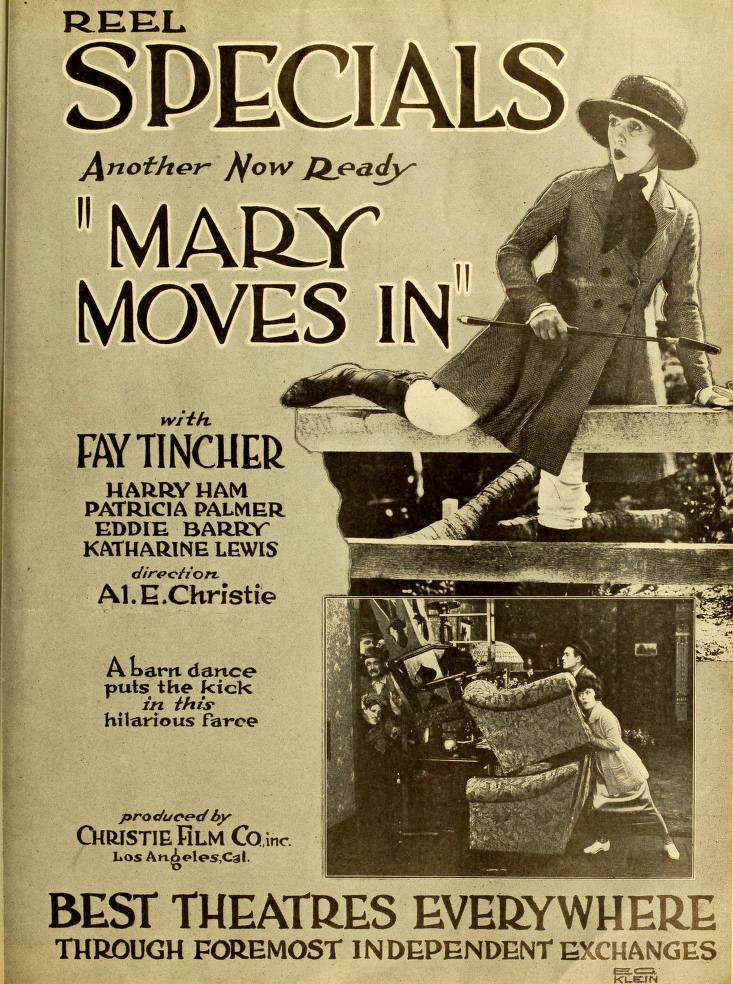 Advertisement, Moving Picture World, June 1919 for the film Mary Moves In (1919).